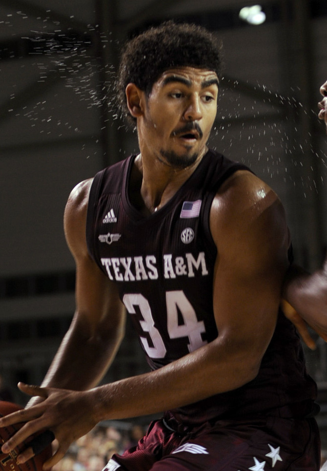 Tyler Davis, Texas A&M Aggies forward, attempts to get past Sagaba Konate, West Virginia Mountaineer forward, during the 2017 ESPN Armed Forces Classic basketball game at Ramstein Air Base, Germany, Nov. 11, 2017. The Aggies overcame a 13-point deficit to defeat the Mountaineers 88-65. The Armed Forces Classic is an annual game which brings live NCAA basketball to military audiences worldwide. The free event, attended by more than 3,100 fans, was open to service members, DoD civilians, and dependents. Ramstein hosted the inaugural event in 2012. (U.S. Air Force photo by Tech. Sgt. Sharida Jackson